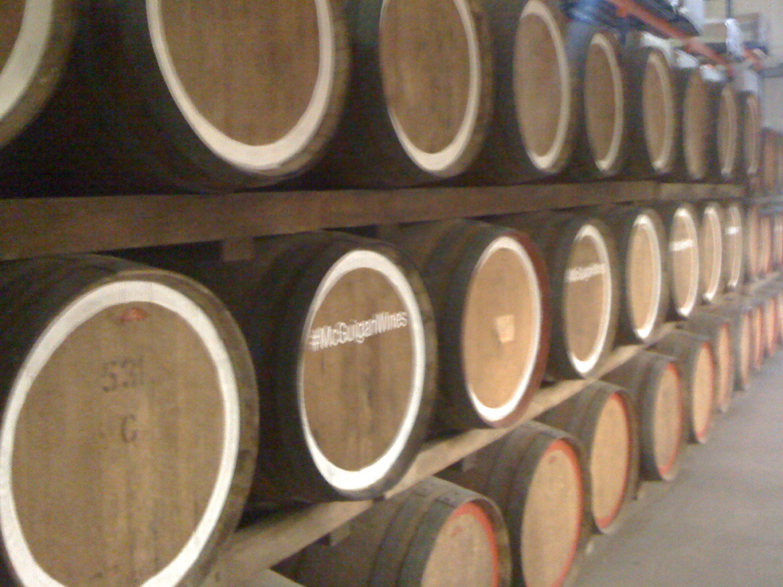 WIne barrels, McGuinan winery, Pokolbin, 2015